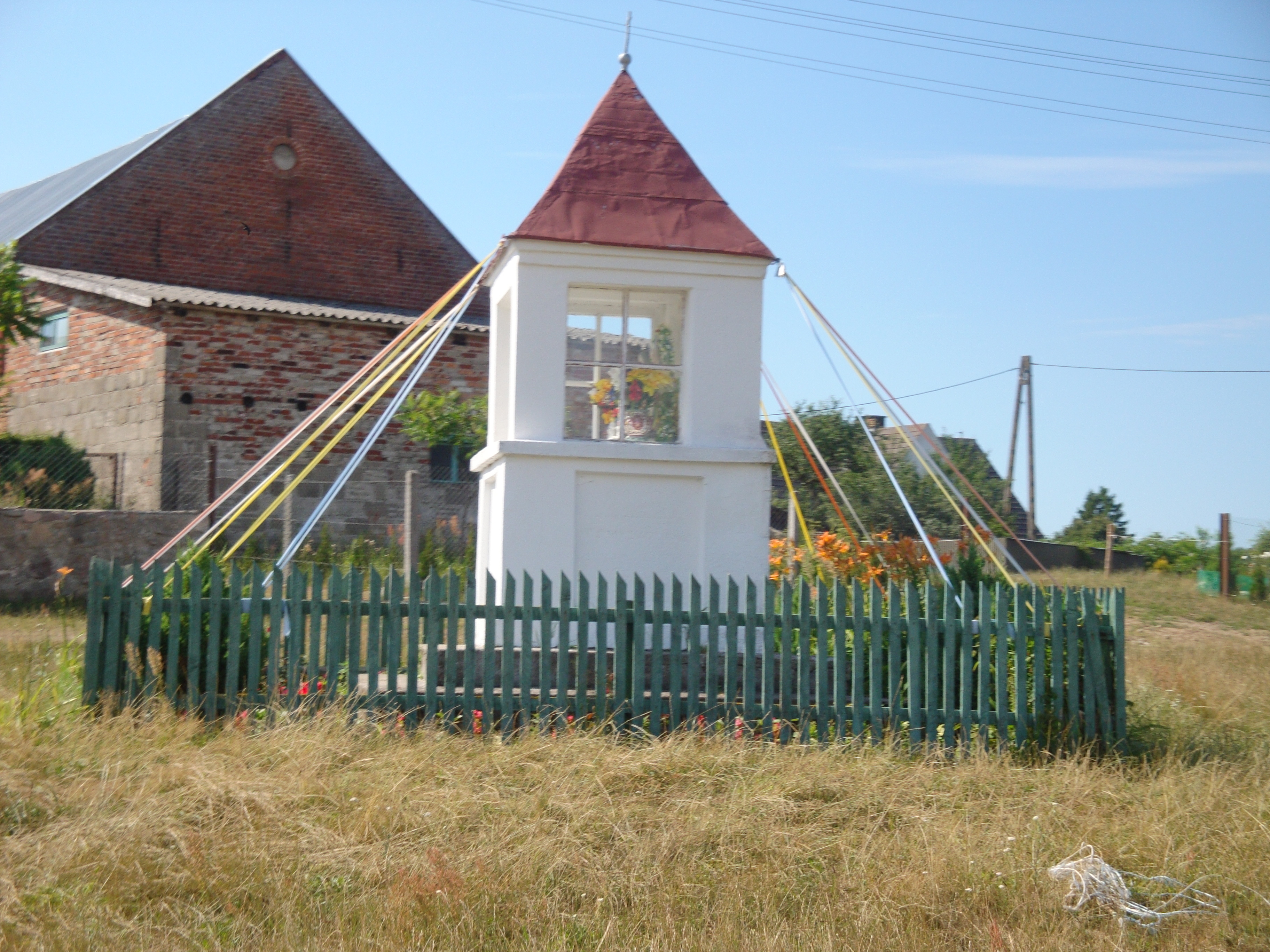 Drzeżewo-village in Pomeranian Voivodeship, Poland